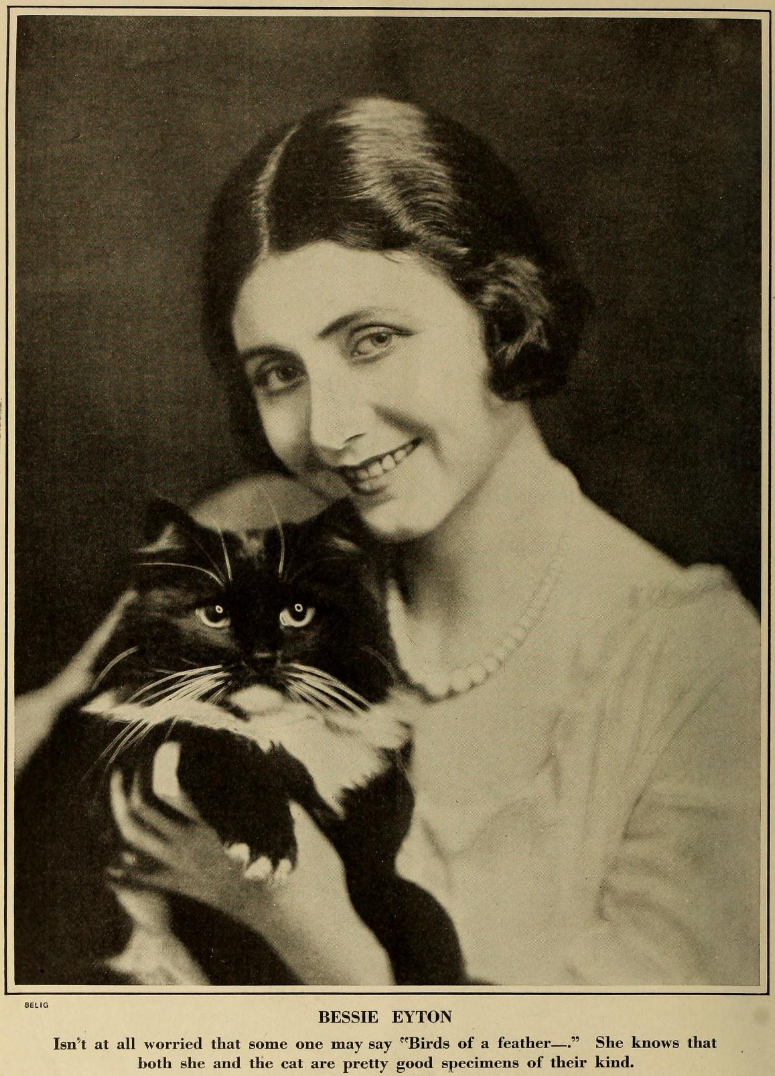 Actress Bessie Eyton poses with a cat, Film Fun, June 1917